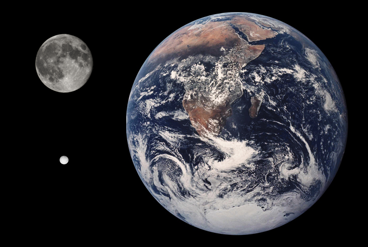 Diameter comparison of the Saturnian moon Enceladus, Moon, and Earth. Scale: Approximately 28.9 km per pixel.